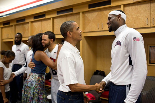 United States President Barack Obama talks with LeBron James as First Lady Michelle Obama hugs Deron Williams during their greet with members of the U.S. Men's Olympic basketball team at halftime of the game against Brazil at the Verizon Center in Washington, D.C., July 16, 2012. (Official White House Photo by Pete Souza)